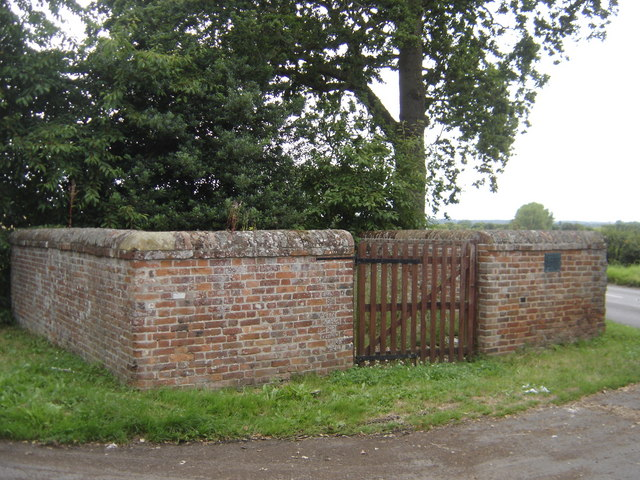 The Village Pound, North Elmham, Norfolk. The most common use was to hold stray animals, cattle, sheep, pigs, etc. They were driven into the pound and kept there at the expense of the owner, until such time as he paid the fine, the amount claimed by the 'impounder' (the person onto whose land they had strayed on) for the damage done and the fee to the pound keeper, for feeding and watering them. If not claimed within three weeks, the animals were driven to the nearest market and sold, the proceeds going to the impounder and the pound-keeper. A clever form of receipt was sometimes used. The person who found the animals on his land cut a stick and made notches, one for every beast, and then split the stick down the centre of the notches so that half of each notch appeared on each stick; one half he kept, the other he gave to the pound-keeper. When the owner came to redeem his animals and had paid for the damage done, the impounder gave him his half stick. He took this to the pound-keeper, and if the two pieces tallied, it proved he had paid, and his beasts were freed. Hence the word 'Tally-stick' and the pound-keeper being referred to as 'The Tallyman'.